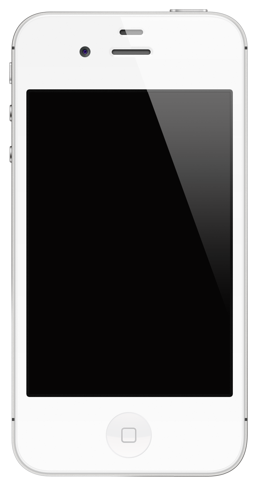 iPhone 4S White no shadow